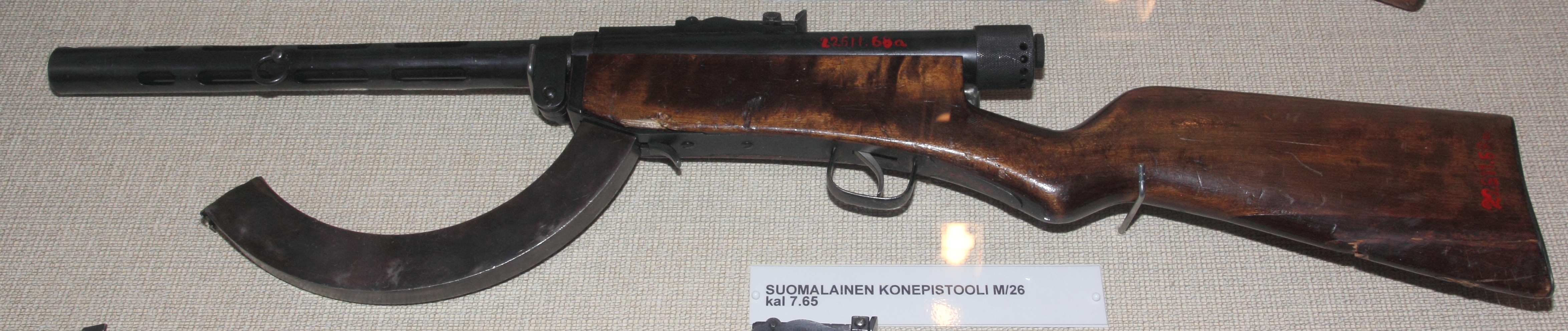 7.65 mm Suomi M/26 submachine gun in Imatra Border Museum.